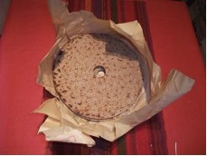 Thin bread or flatbread in a contemporary square shape.